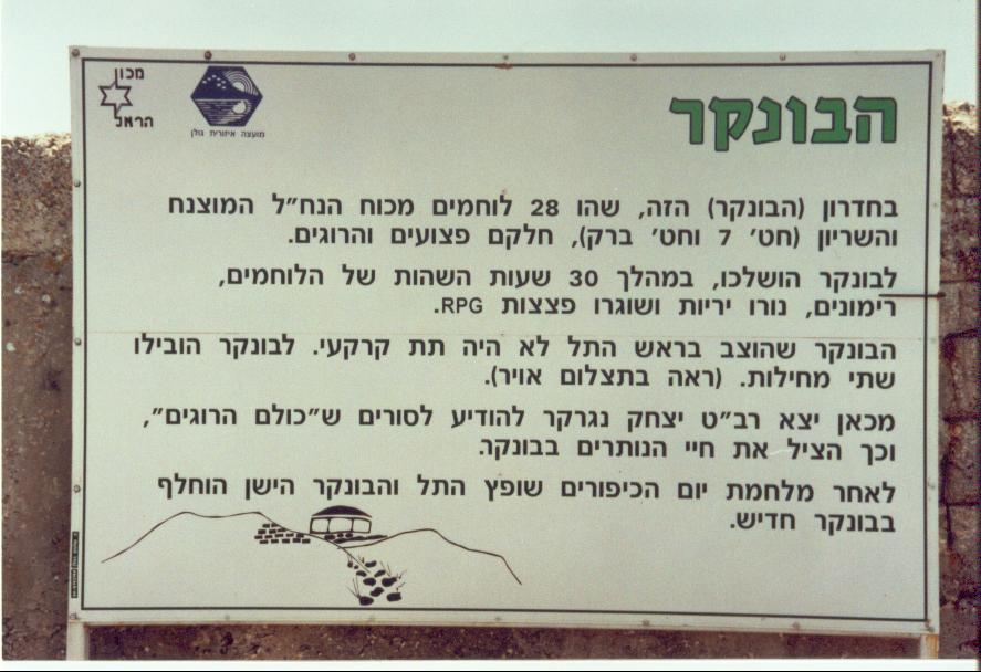 Itzhak Nagarker and Gabi Ashkenazi in Tel-Saki.